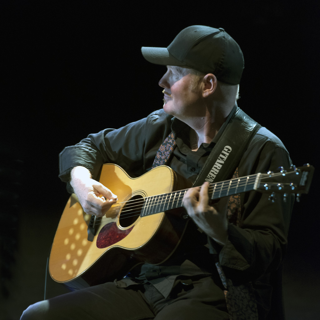 Portrait of the swedish guitarist Ulf Wakenius, taken on 2014-10-22 during a concert in Nice (French Riviera), with Youn Sun Nah.